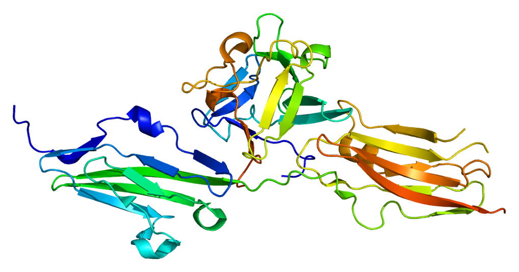 Structure of the FGFR2 protein. Based on PyMOL rendering of PDB 1djs.